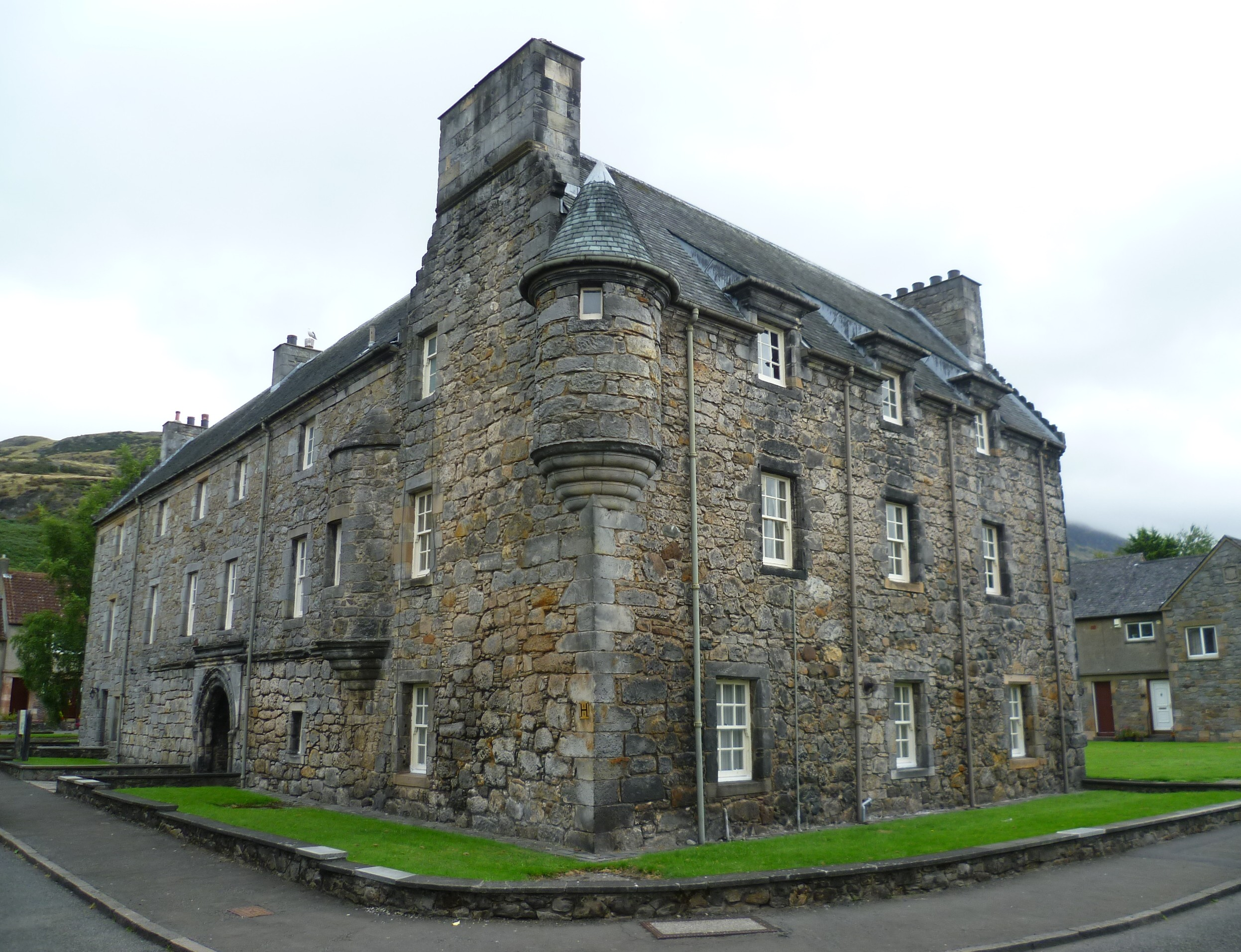 Menstrie Castle, Clackmannanshire